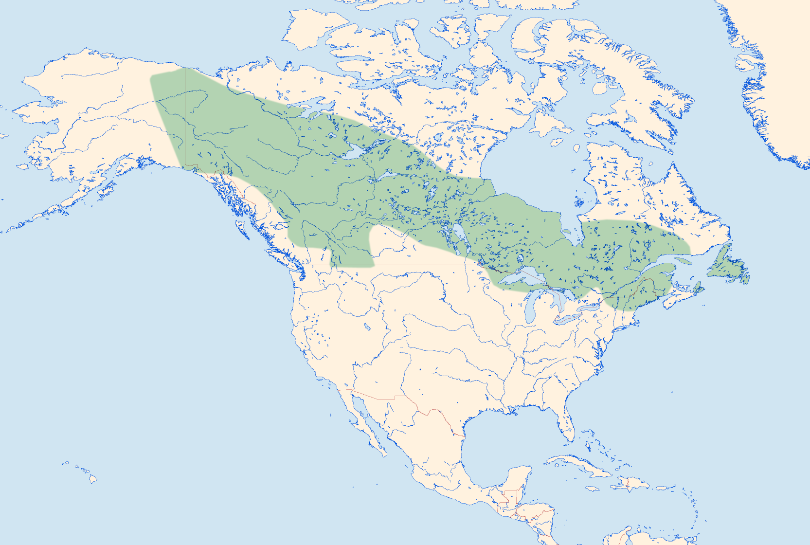 Distribution of Subarctic Bluet (Coenagrion interrogatum). Data Sources (In case of discrepancies in the map source the youngest in each data source was used): Dennis Paulson: Dragonflies and Damselflies of the East, Princeton Field Guides, Princeton University Press, New Jersey 2011, ISBN 978-0-691-12283-0. Dennis Paulson: Dragonflies and Damselflies of the West, Princeton Field Guides, Princeton University Press, New Jersey 2000, ISBN 978-0-691-12281-6.